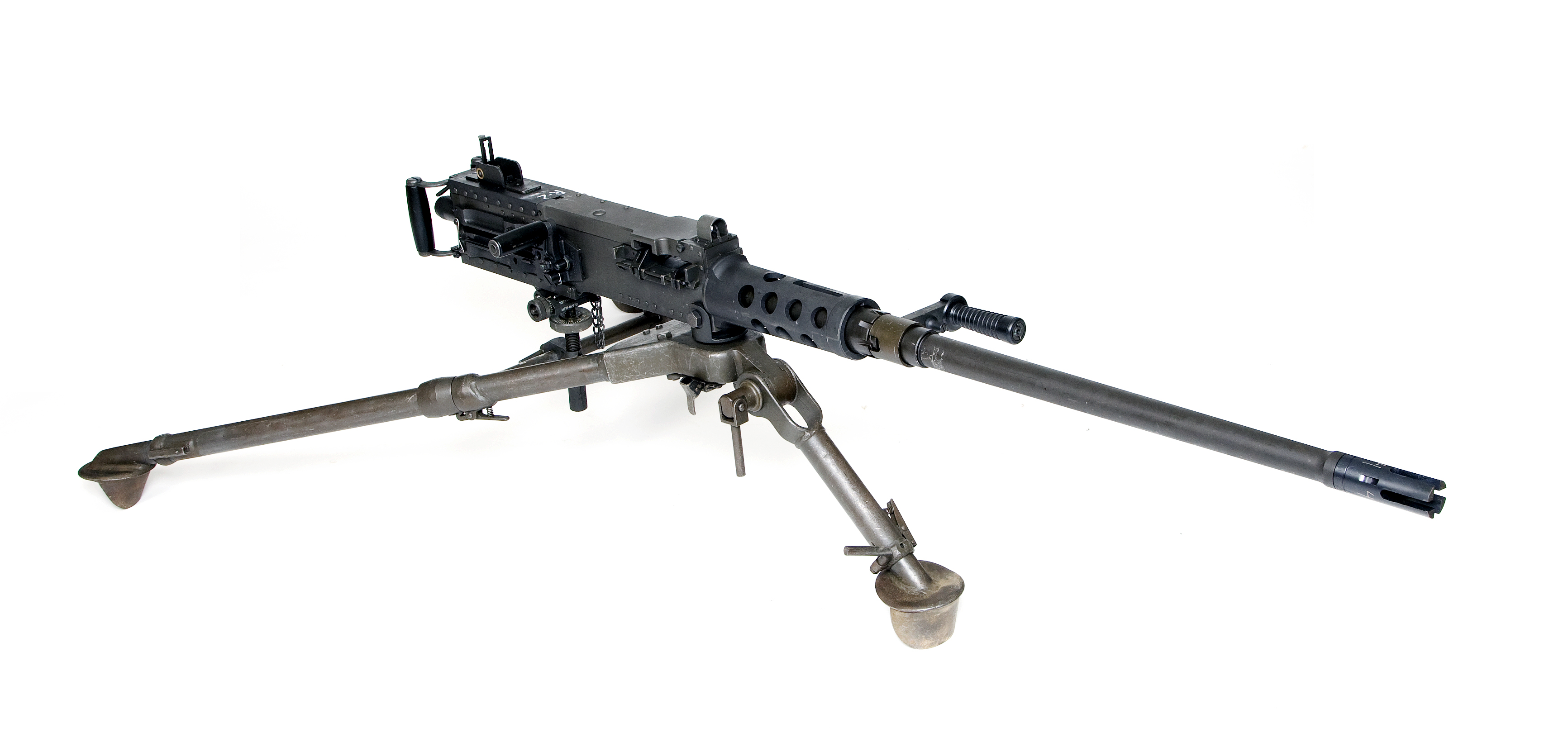 M2E2 Quick Change Barrel (QCB) Kit is an enhancement to the M2 .50 Caliber Machine Gun.